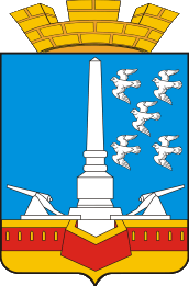 Slavyansk-na-Kubani (Krasnodar krai), coat of arms (12-2006)